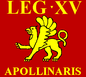 Signum of Legio XV Apollinaris, simplified reconstruction